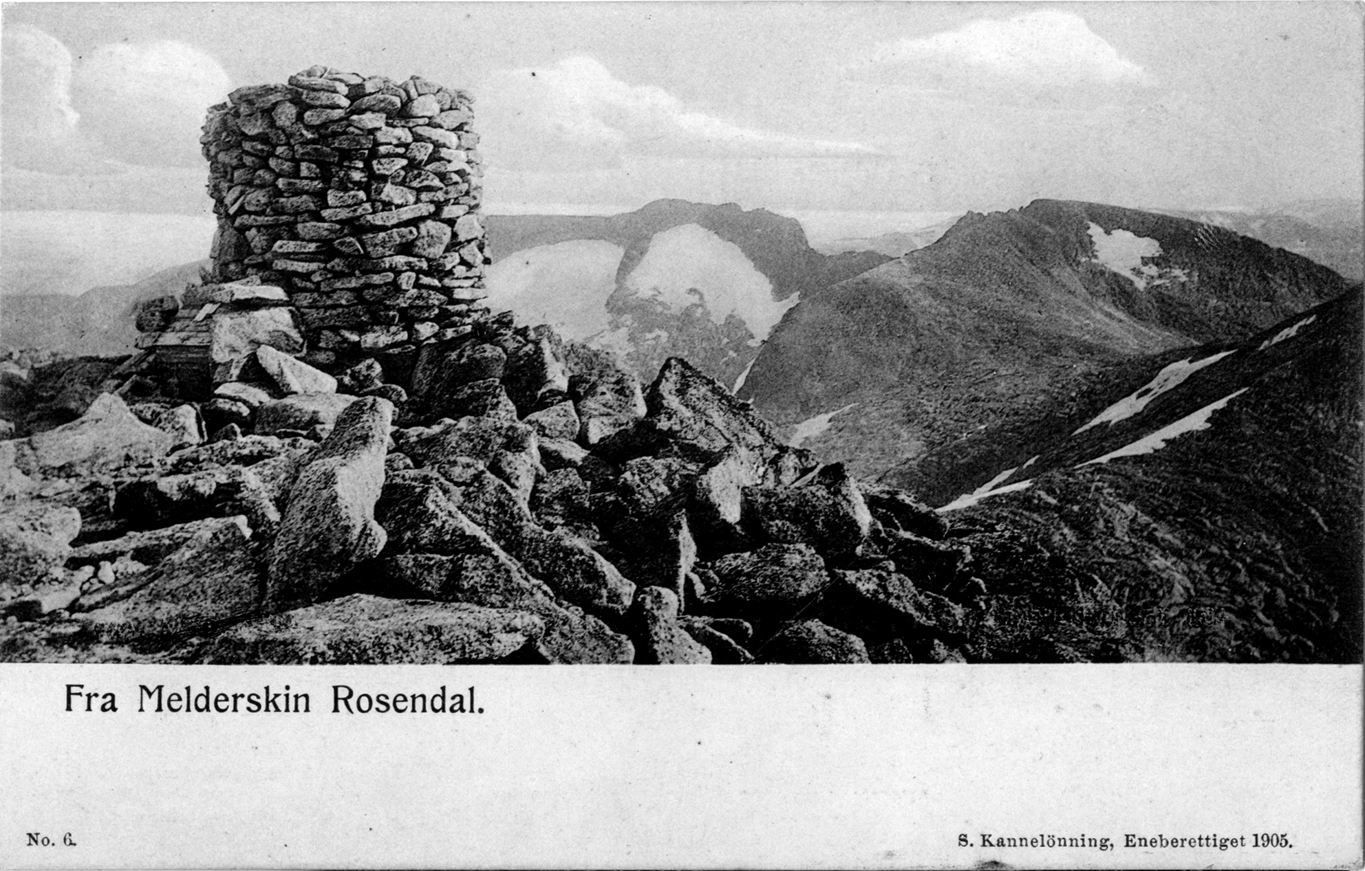 Melderskin